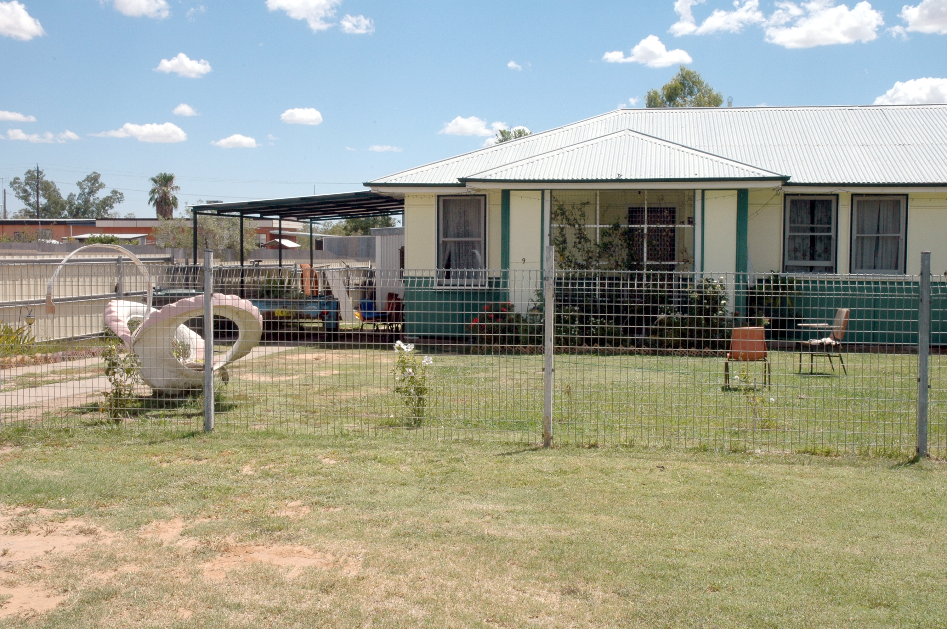 A house in Brewarrina. Note the garden ornament made from a tyre, once a feature of many Australian front yards.